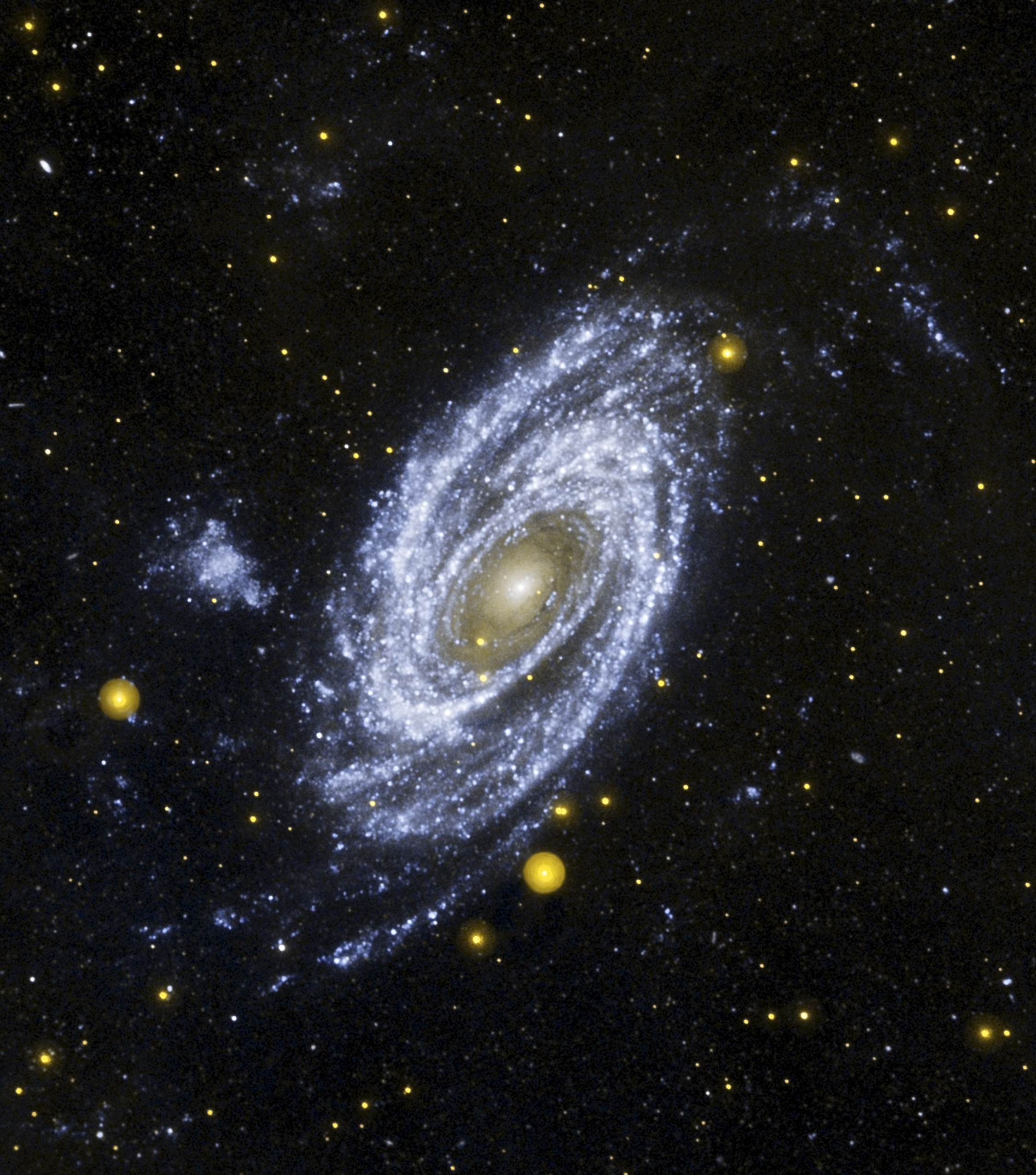 In a new ultraviolet image, the magnificent M81 spiral galaxy is shown at the center. The orbiting observatory spies the galaxy's "sizzling young starlets" as wisps of bluish-white swirling around a central golden glow. The tints of gold at M81's center come from a "senior citizen" population of smoldering stars.